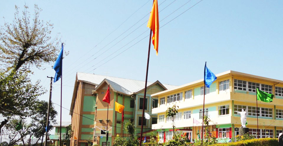 The Two Main Buildings of the School